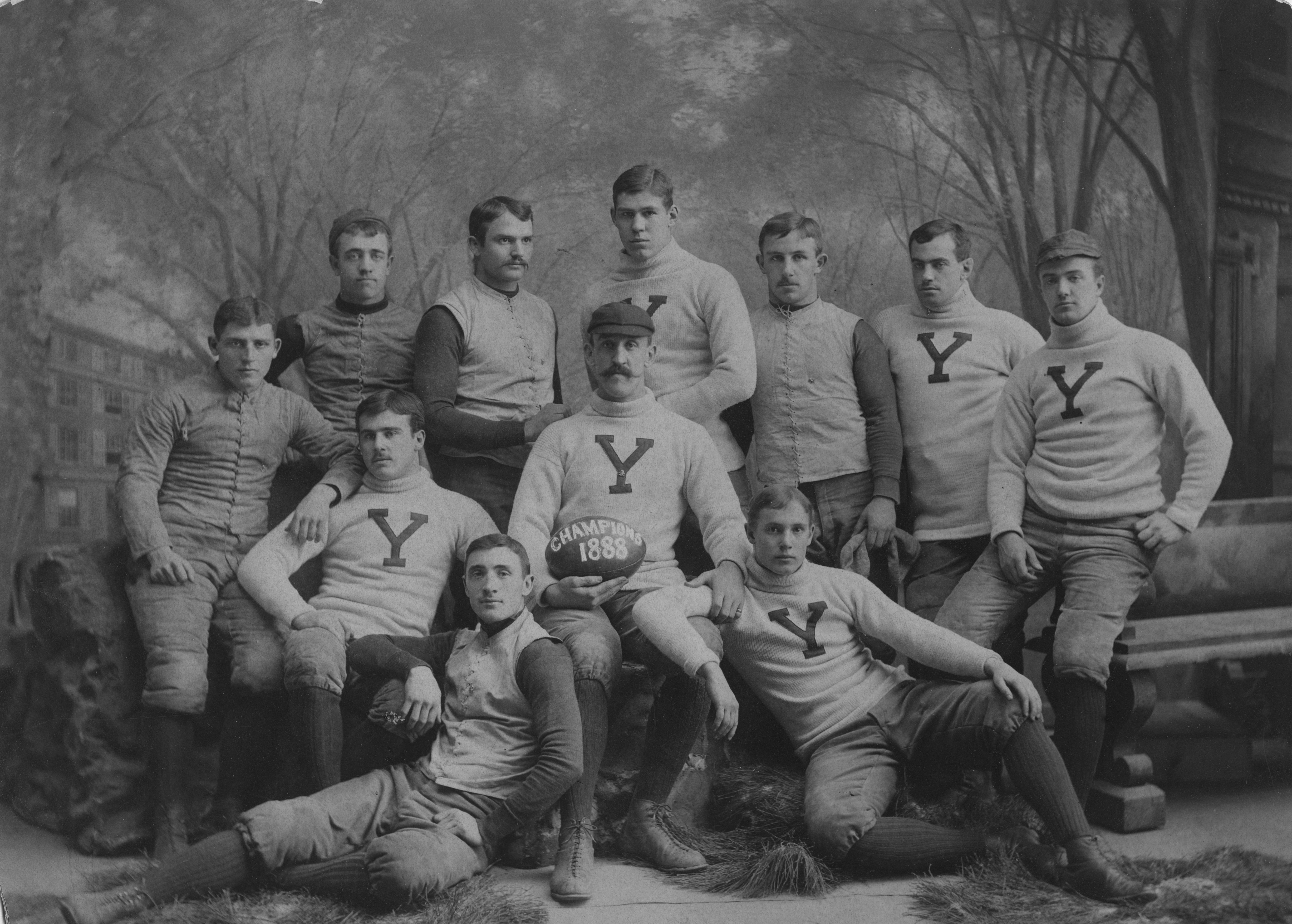 Photo of 1888 Yale (American) football team